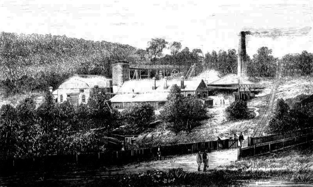 Fitzroy Iron Works - The sandstone blast furnace is visible just left of the centre of the picture.